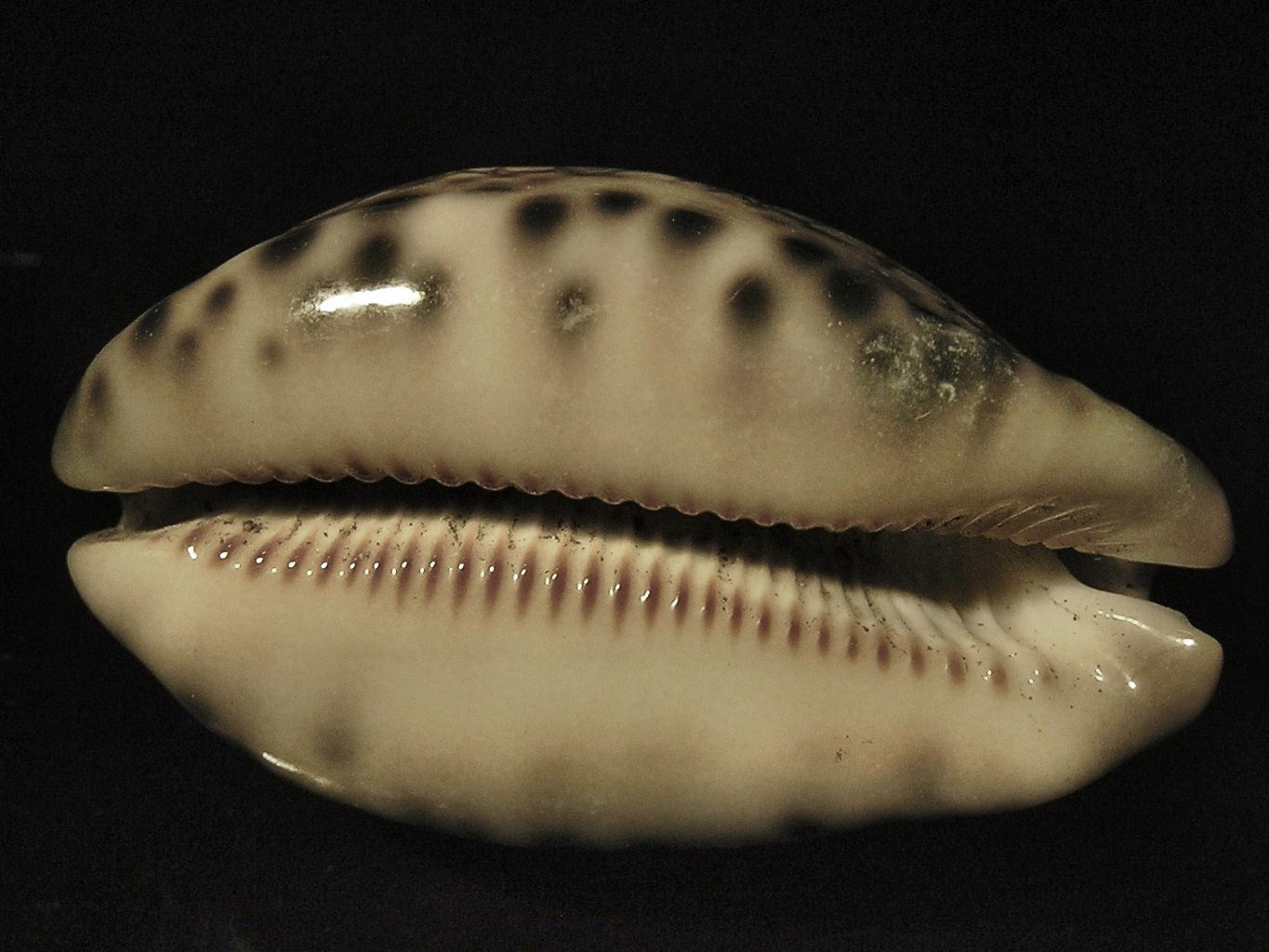 Mauritia histrio westralis Iredale, 1935, a cowry from the family Cypraeidae; Australia